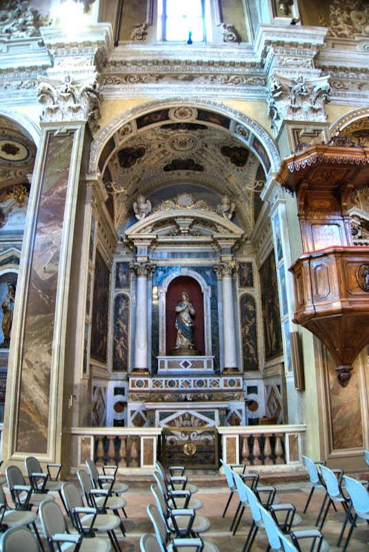 Chapel of the Virgin Mary